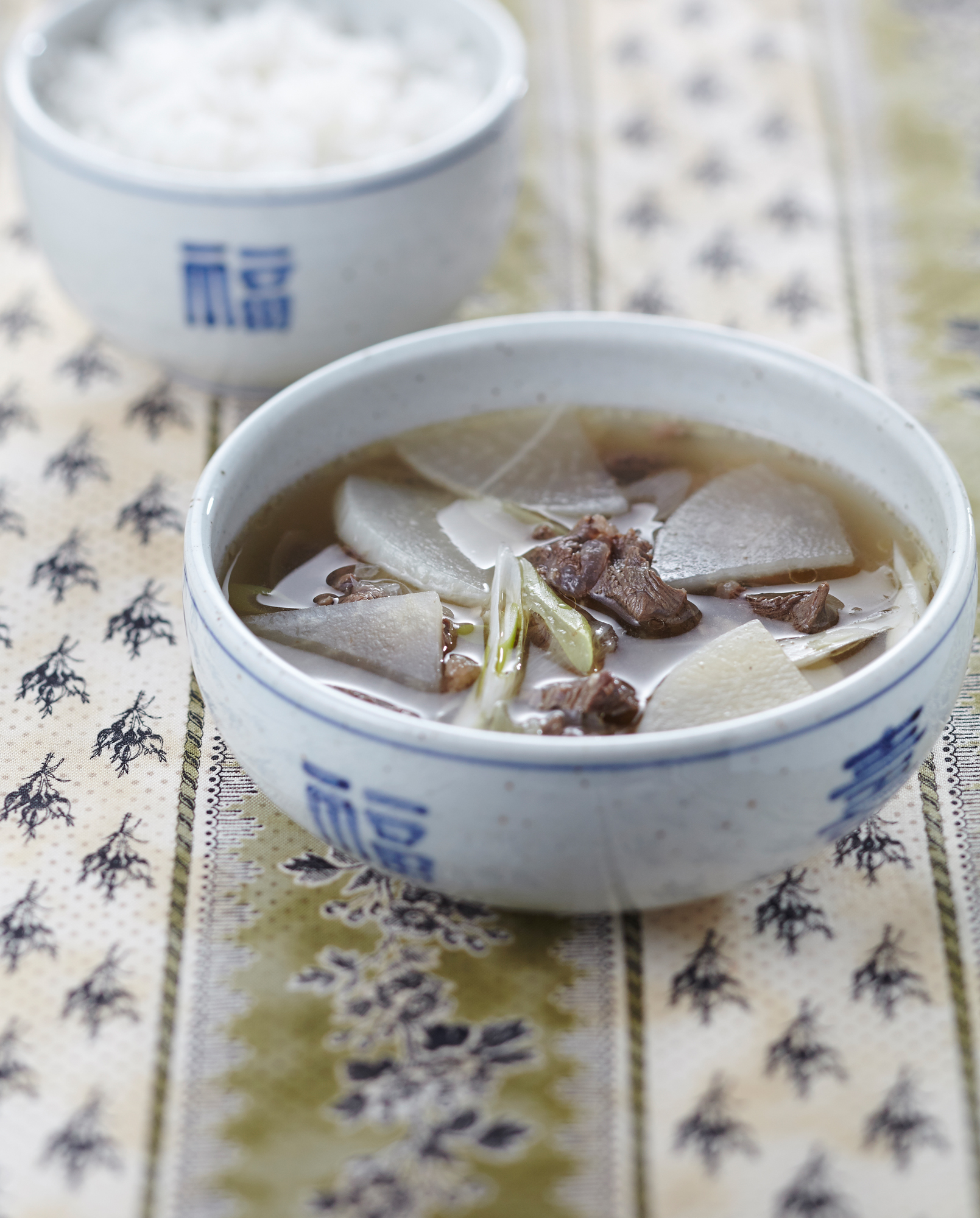 Soegogimuguk (beef radish soup)